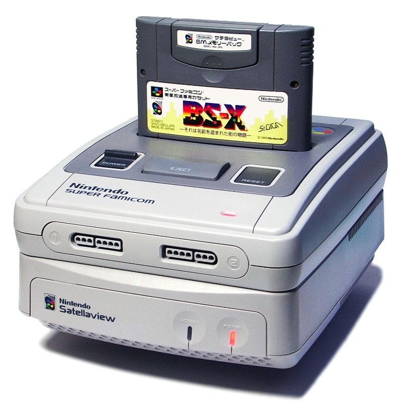 Satellaview (SHVC-029), Super Famicom (SHVC-001), BS-X cassette(SHVC-028), 8M memory pack(SHVC-031).